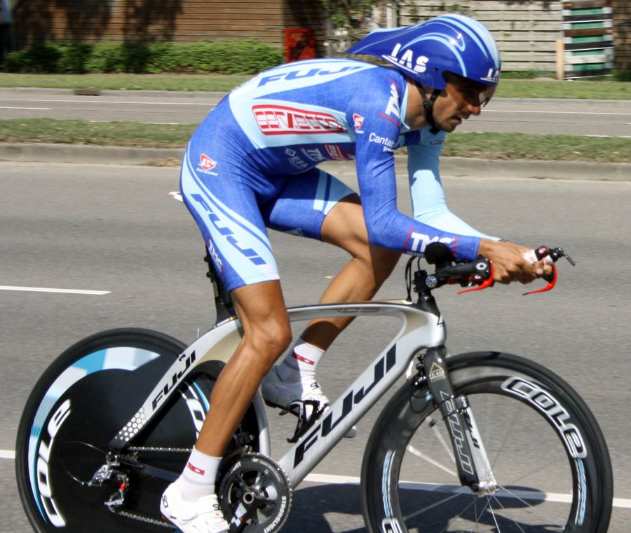 José Alberto Benítez at the 2009 Eneco Tour prologue